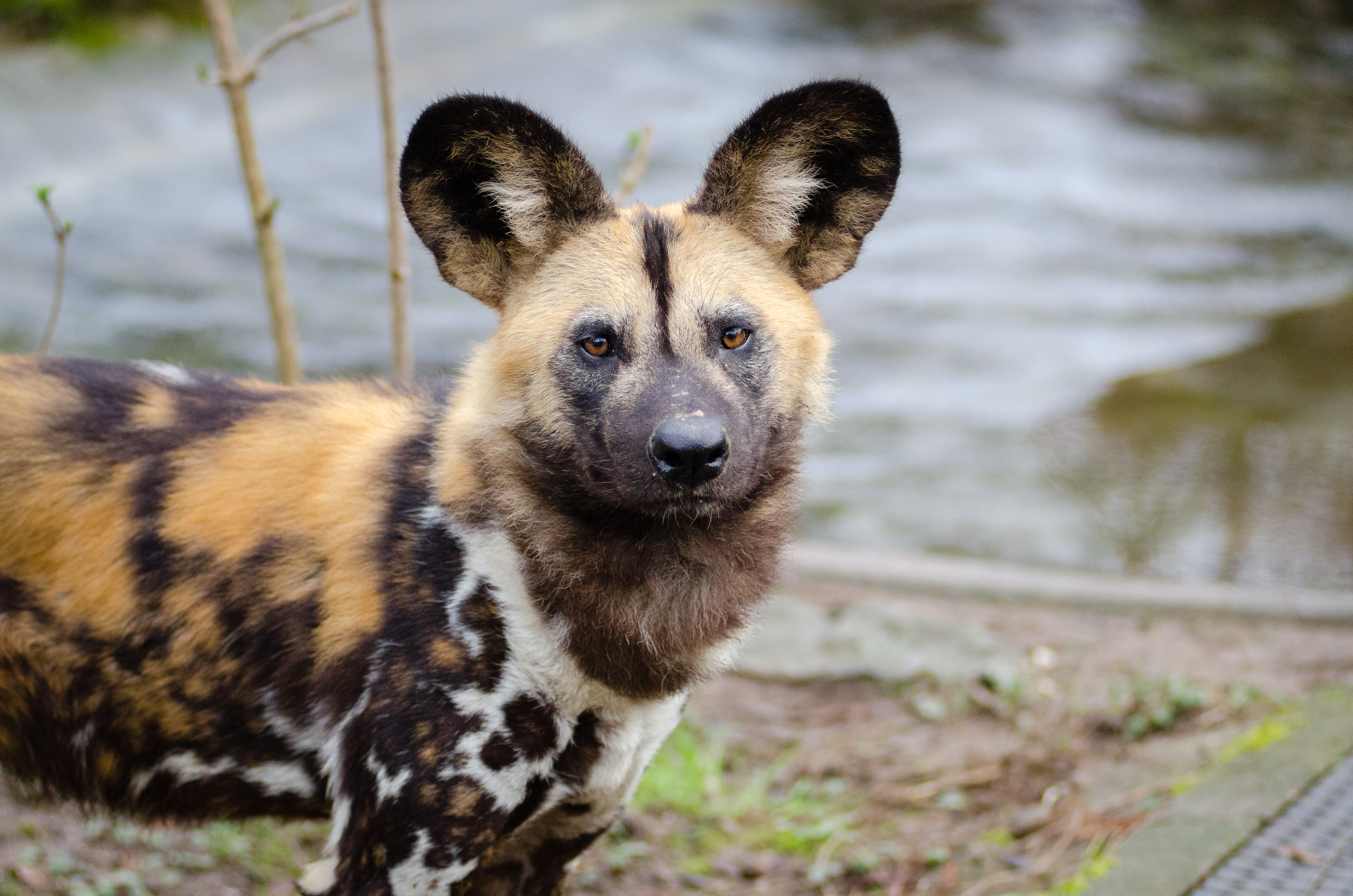 African wild dog